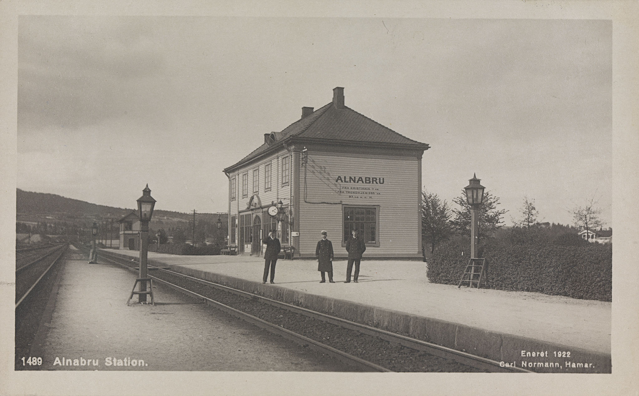 Tittel / Title: 1489 Alnabru Station Beskrivelse / Description: Postkort. Dato / Date: ca 1922 Fotograf / Photographer: Carl Normann (1886-1960) Utgiver / Publisher: Carl Normann, Hamar Sted / Place: Oslo, Alna, Alnabru stasjon Eier / Owner Institution: Nasjonalbiblioteket / National Library of Norway Lenke / Link: Bildesignatur / Image Number: bldsa_PK1763